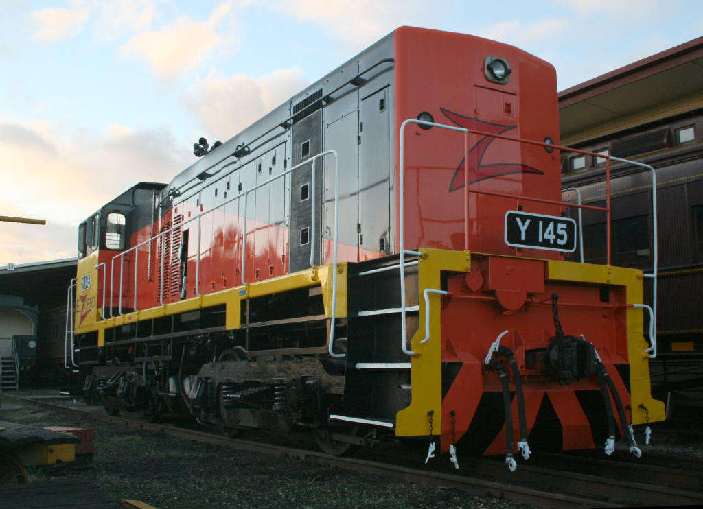 El Zorro liveried Y145 at Seymour